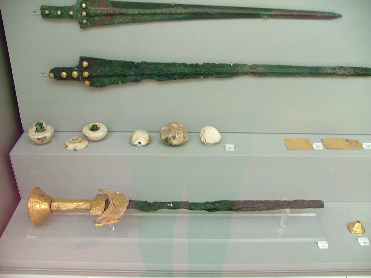 Type A bronze swords from tomb V of Micenas, 16th century AD. Upper pair with gold accents, and the lower with gold pommel and grips. National Archaeological Museum of Athens.